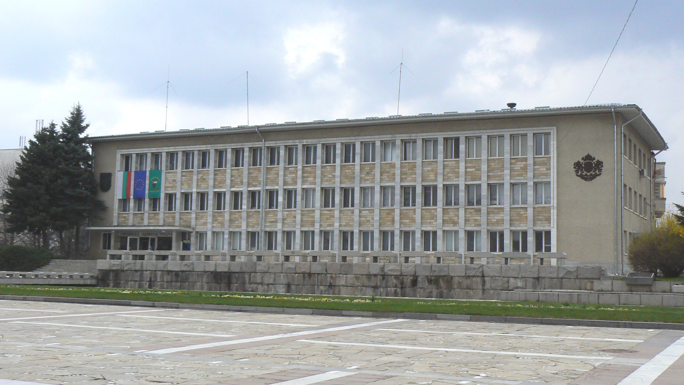 The building of Panagyurishte municipality, Panagyurishte, Bulgaria